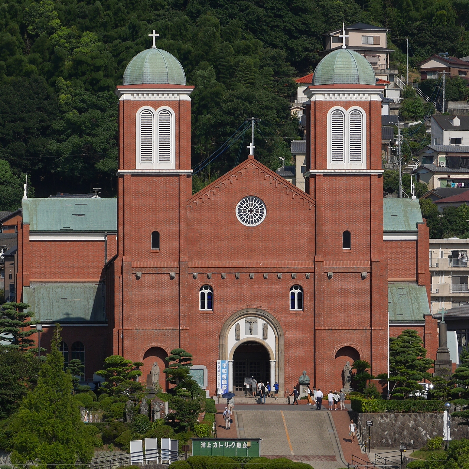 Urakami Catholic Church.（Nagasaki, Japan）